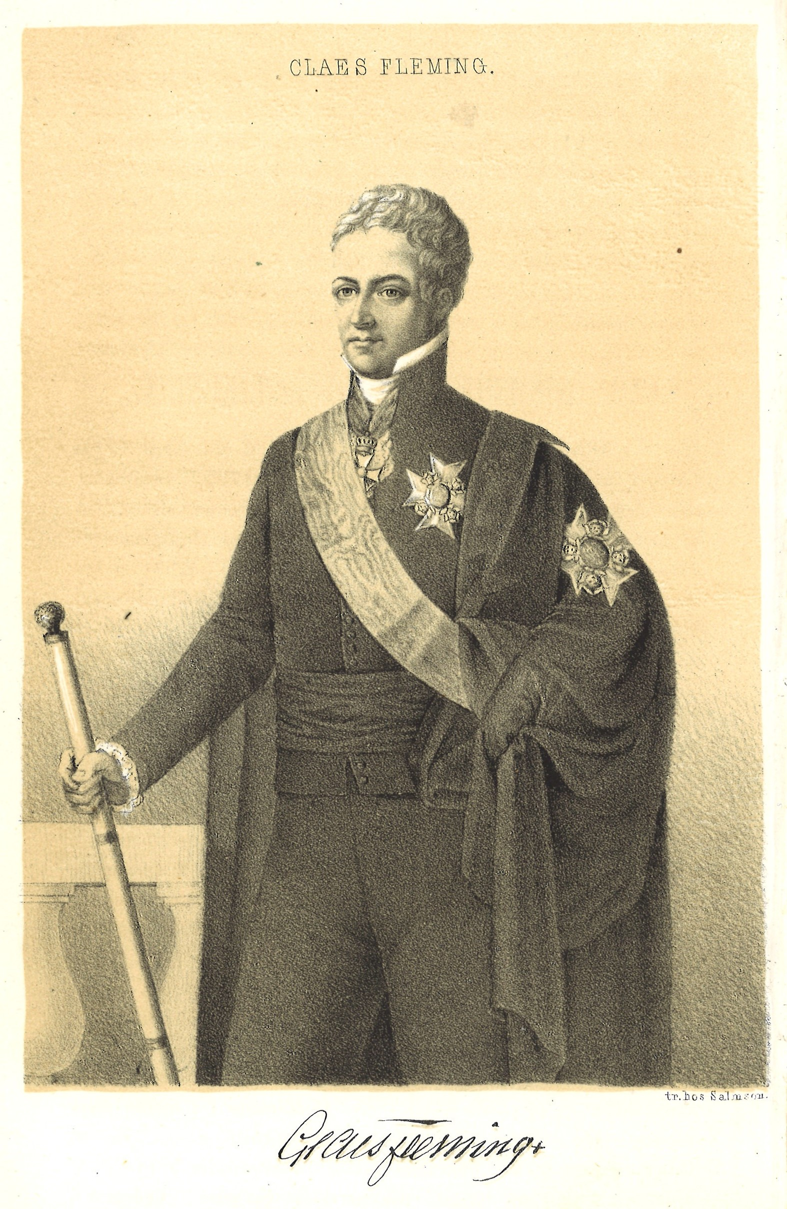 Claes Adolph Fleming (1771-1831), Swedish count, marshal of the realm and "lantmarskalk" (chairman of the estate of nobility).